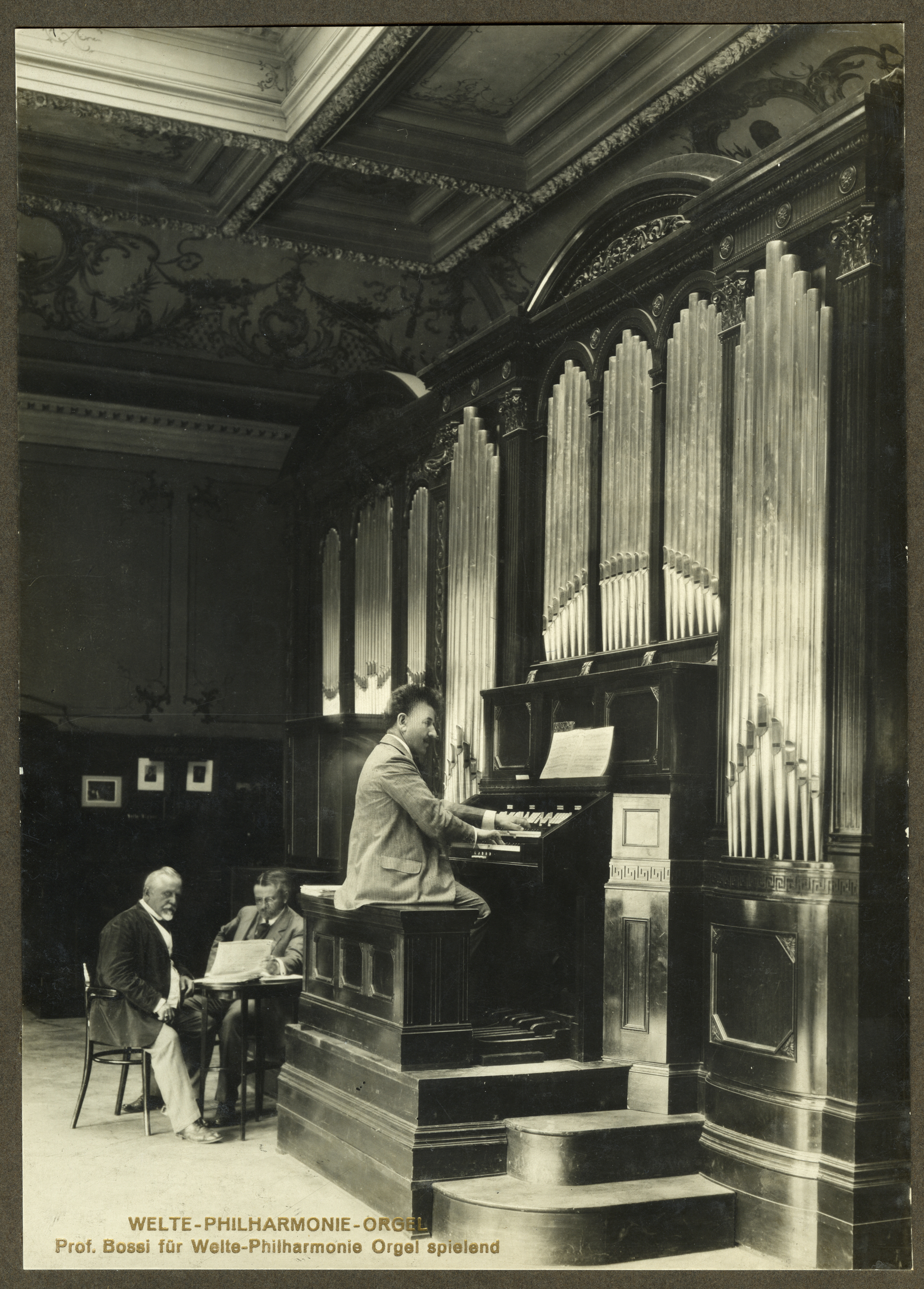 Recording session for the Welte-Philharmonic Organ with Enrico Bossi, 1912. Scanned from a Welte advertisement from ca. 1913.